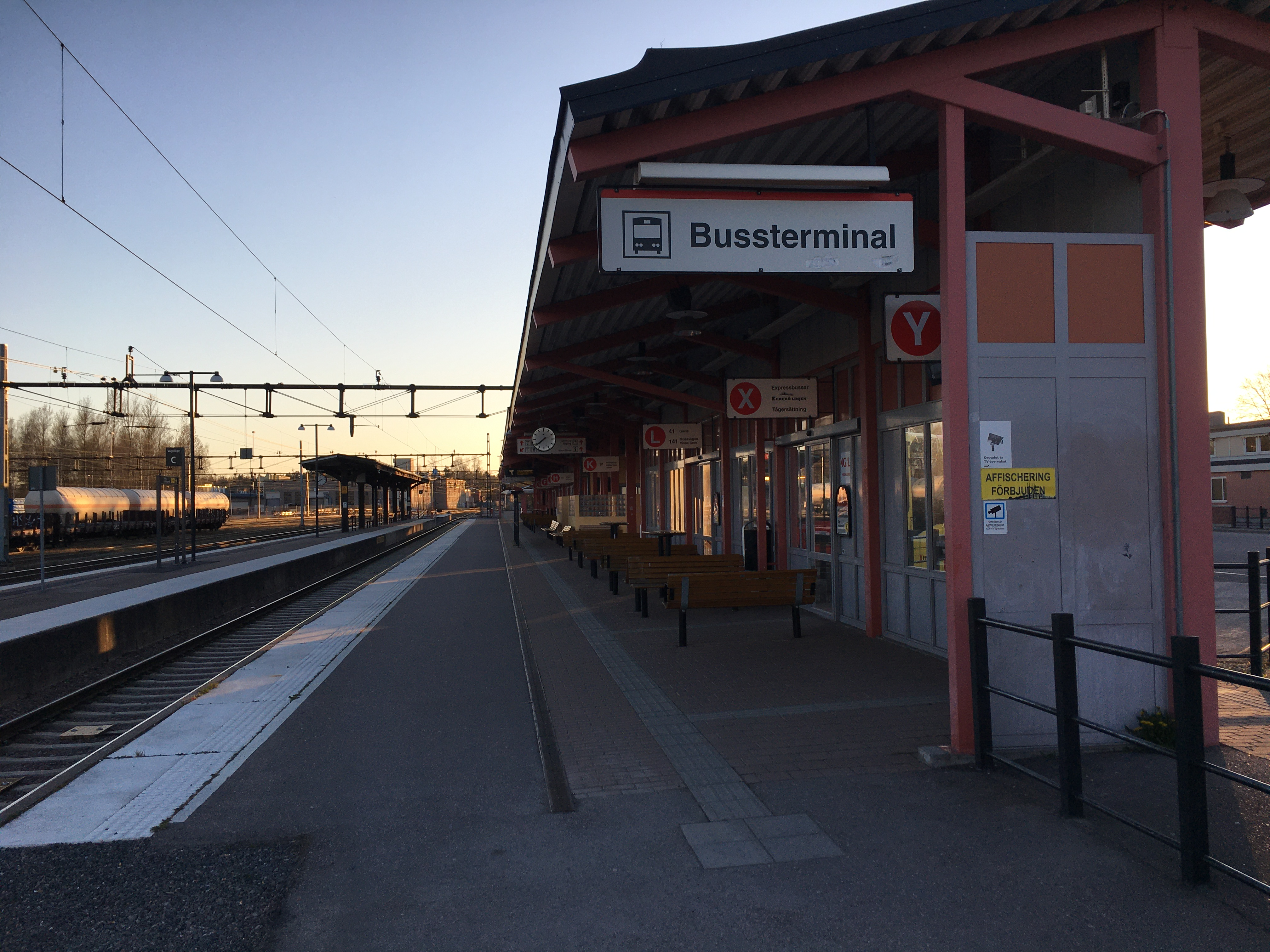 Sandviken travel center in the evening. Photographed to the west.